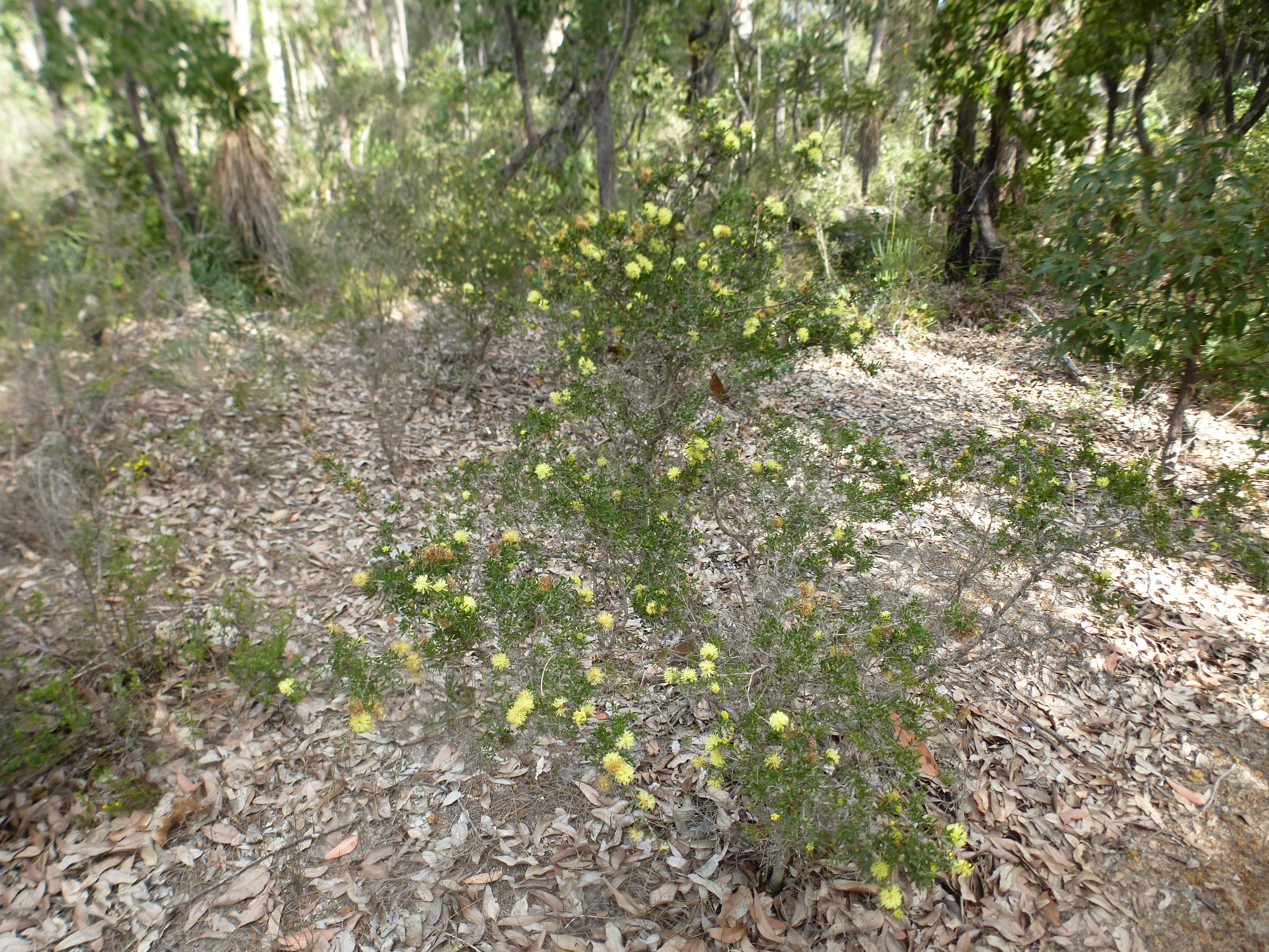 Melaleuca thymoides growing 20 km south of Busselton